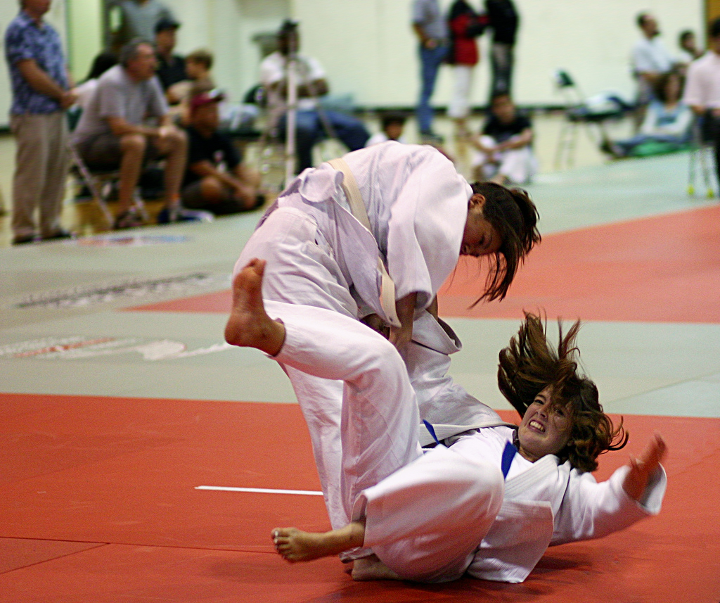 This past Saturday was the Mose Woodson Classic Judo Tournament, here in Denton. I managed to make it out to watch and play, after missing last year. Took my wife's old camera and borrowed a lens and tried to get some good photos. Unfortunately, my inexperience bit me hard, so I didn't get nearly as many as I would have liked. Practice, practice. I do like this one, however. I don't know the competitors, but white caught blue with a textbook seionage that got the attention of the crowd in a big way. Wish I could hit a throw that clean in competition.